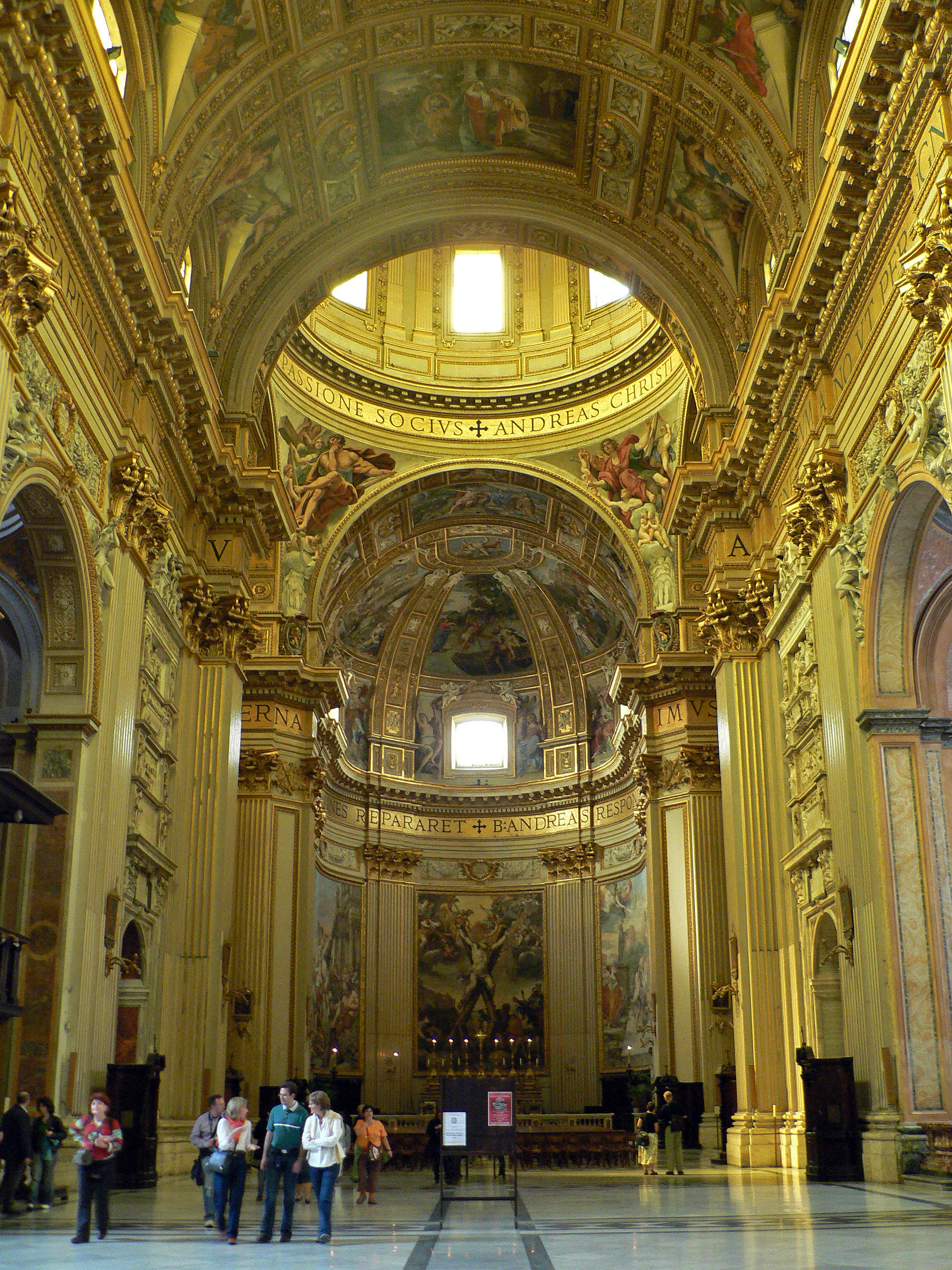 Basilica of Sant'Andrea della Valle in Rome. Inside.